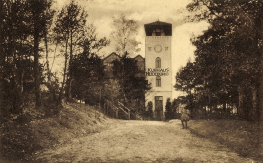 The Kurhaus Heideburg, a health resort, in the then independent municipality Hausbruch, south of Hamburg, Germany.